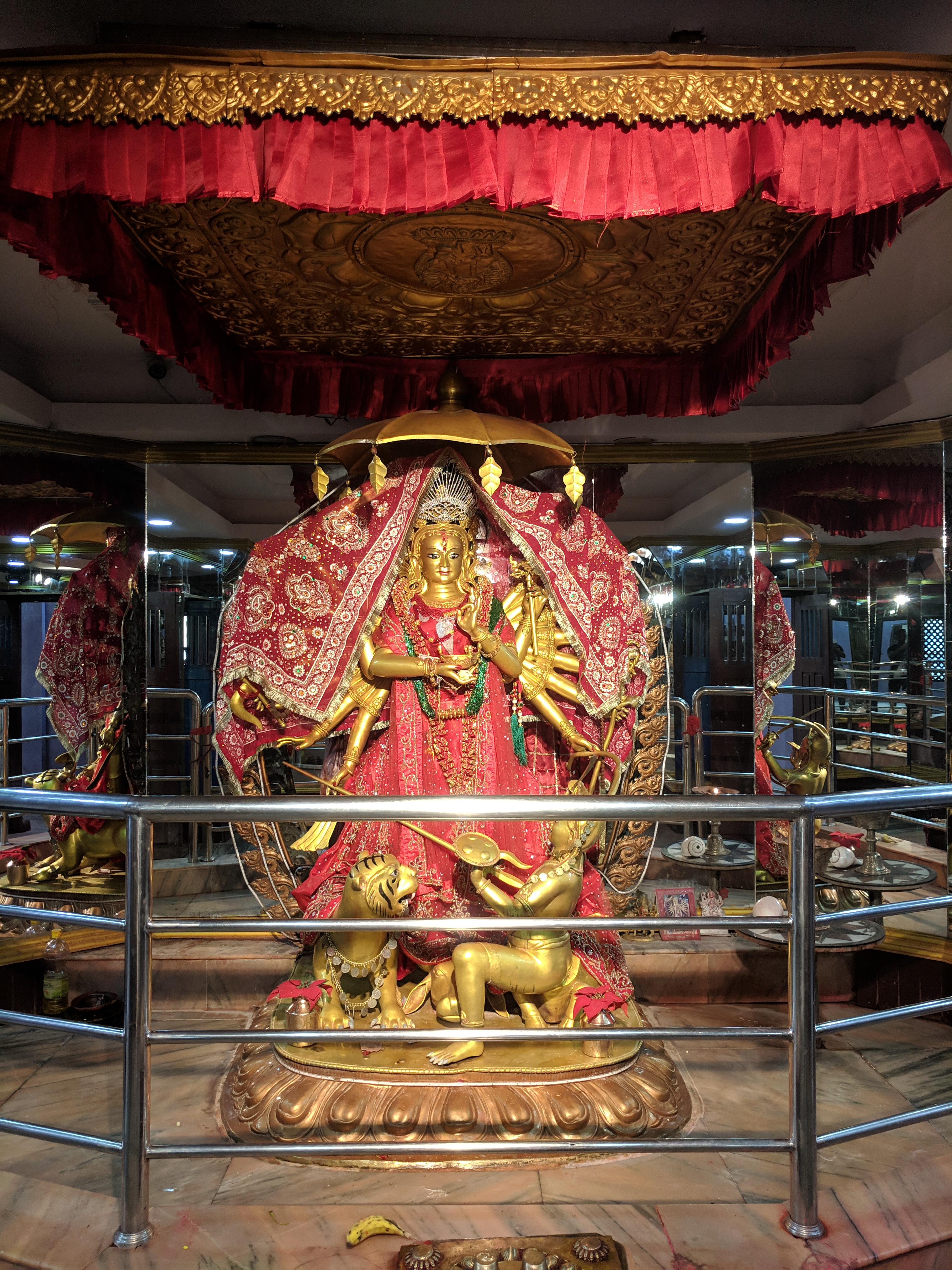 Bhutandevi Mandir (Nepali: भुटनदेवी मन्दिर) is a Hindu temple dedicated to Goddess Bhutandevi (a.k.a. Hidimbi), said to be the wife of Bhim (One of the Pandavas) and mother of Ghatotkacha. Butandevi is actually another form of goddess Durga. Situated at Butandevi Road-10 in Hetauda, a town in Makwanpur district of Nepal,. It is about 15 minute walkable distance from Hetauda Bus Park.the temple of Butandevi i.e. The temple was designed according to Vastu principles and it is believed that worshipping the goddess helps one to get victory over serious troubles, problems and fear.